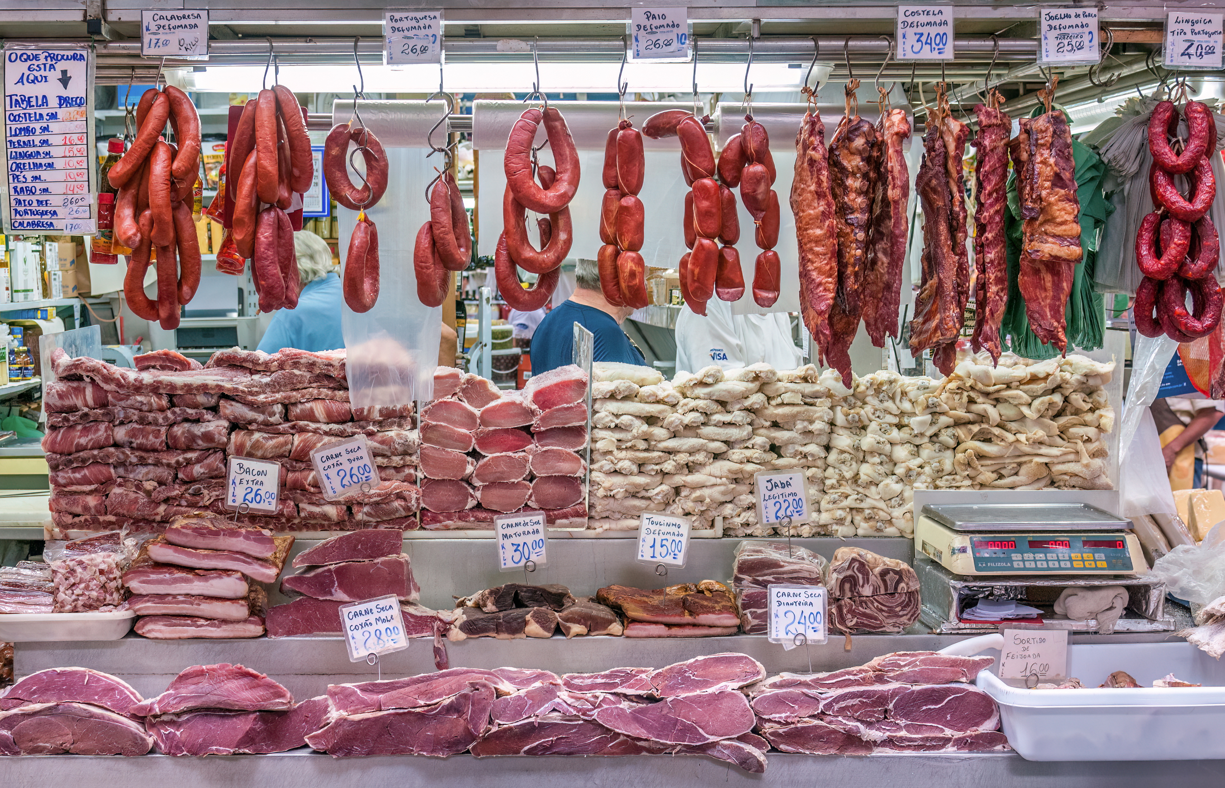 Mercado Municipal (São Paulo, Brazil)